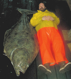 The Pacific halibut, Hippoglossus stenolepis, is one of the largest flatfish - they can weigh up to 500 pounds and grow to over 8 feet long.